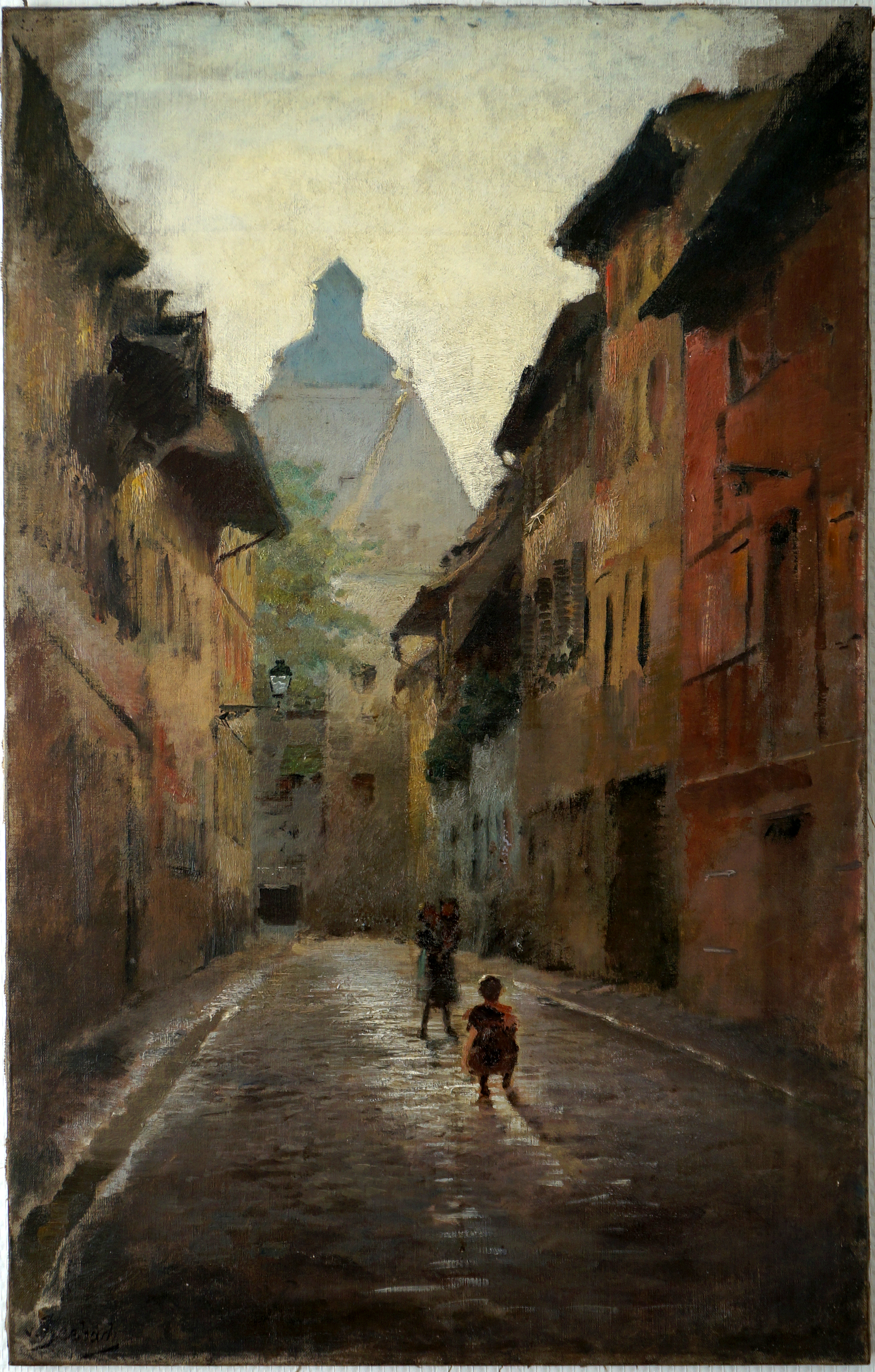 Rue de l'Hopital in Strasbourg.